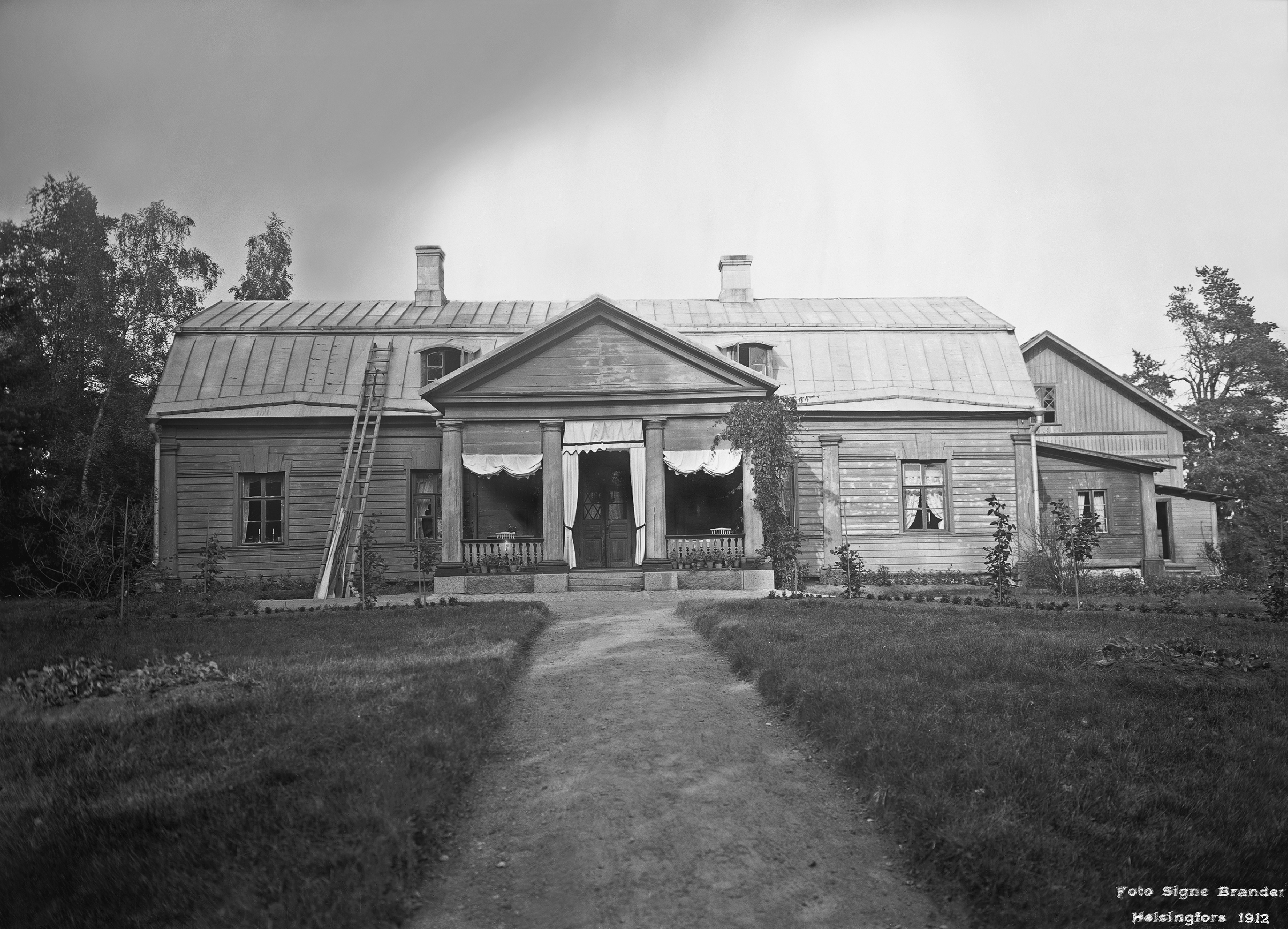 Kavantsaari house in Antrea, Finland 1912.